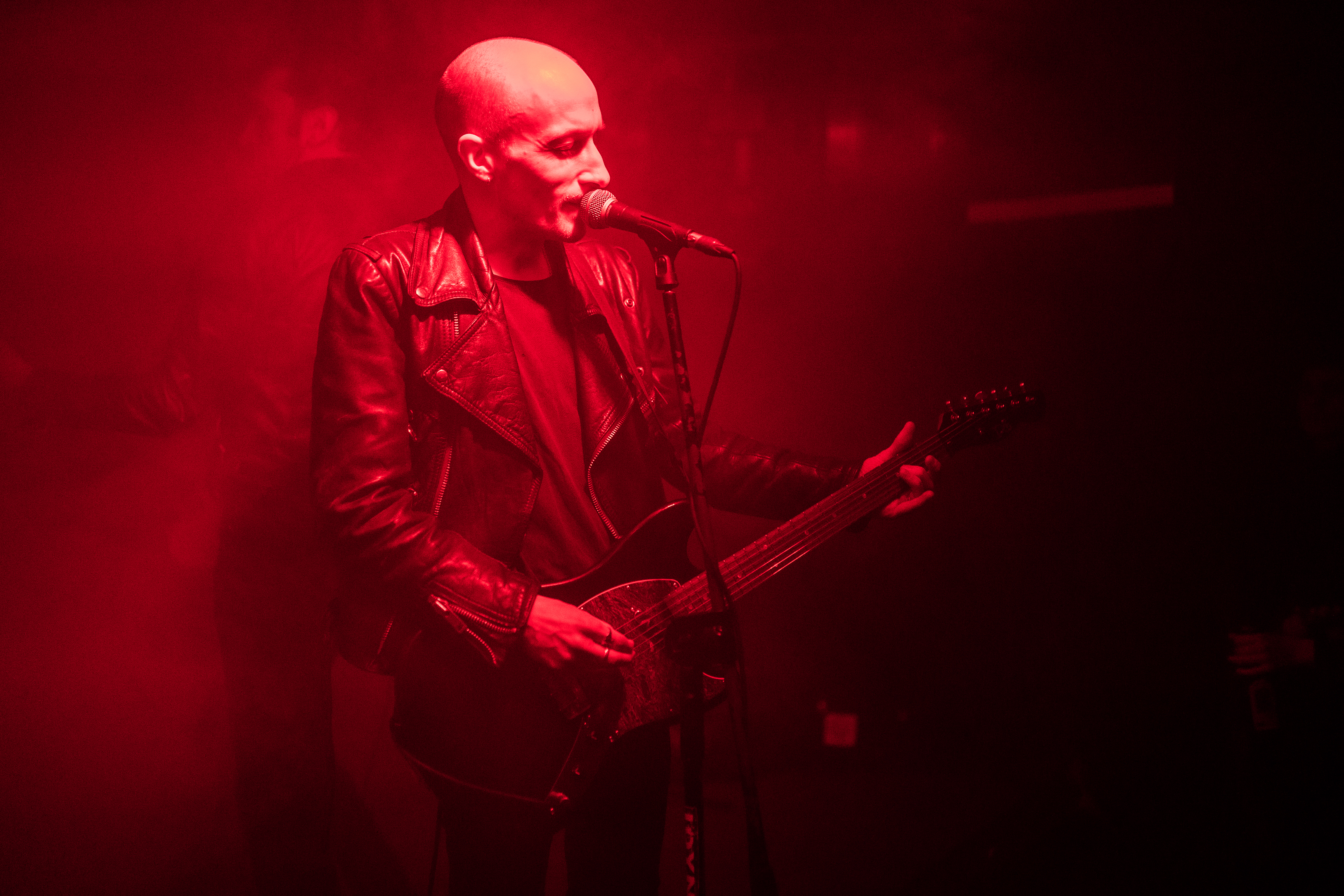 The Underground Youth during the concert in Warsaw, Poland 2018.